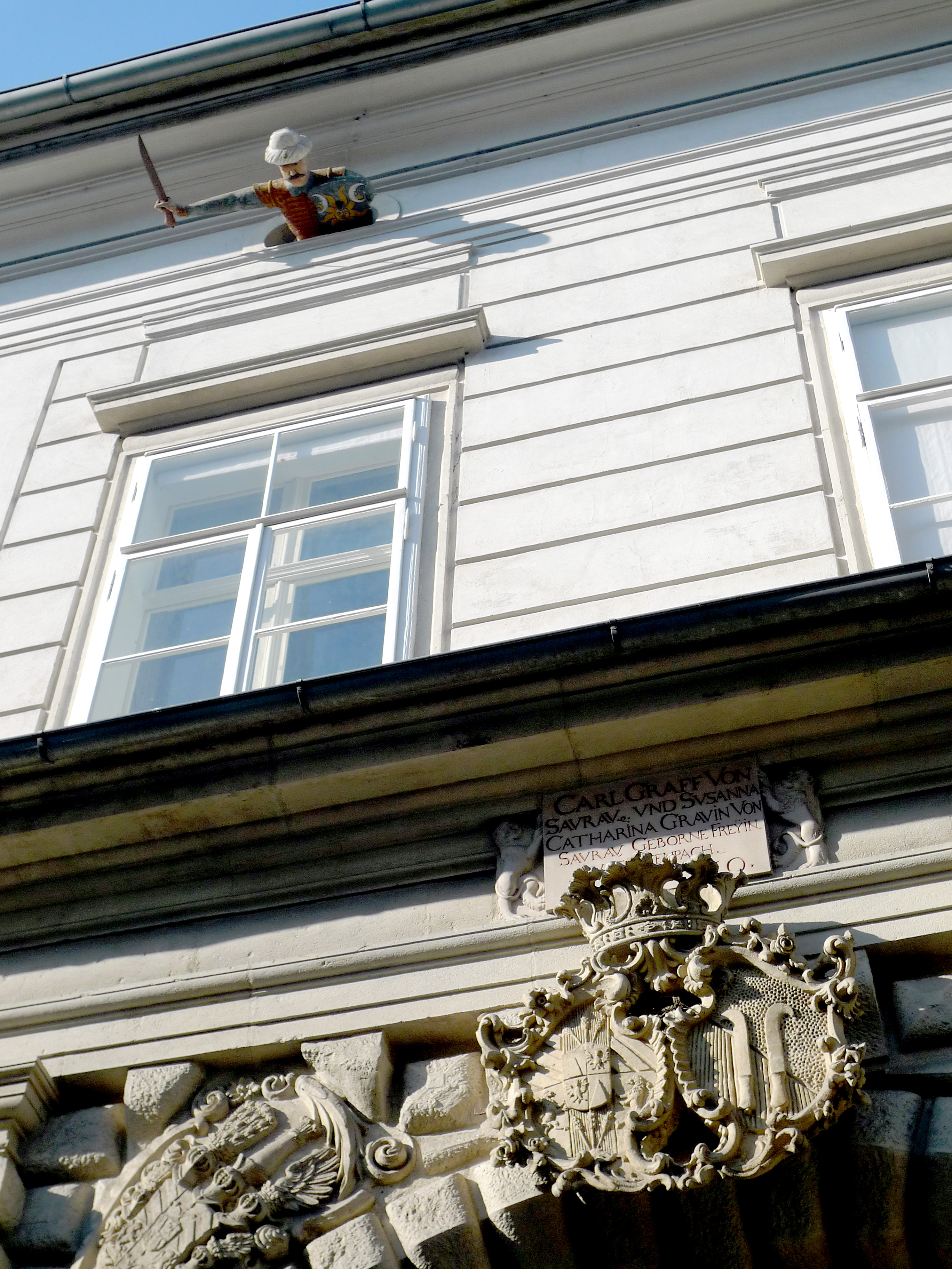 Ehem. Palais Saurau-Goeß